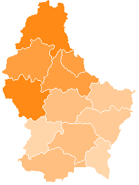 A map of cantons of Luxembourg after mergers of 2006-01-01, colour-coded by the altitude of the highest peak in the commune. The altitude is denoted by seven different shades of orange; in order of increasingly darker shades, the lower bounds (in m) are: 0, 400, 425, 450, 475, 500, 550.